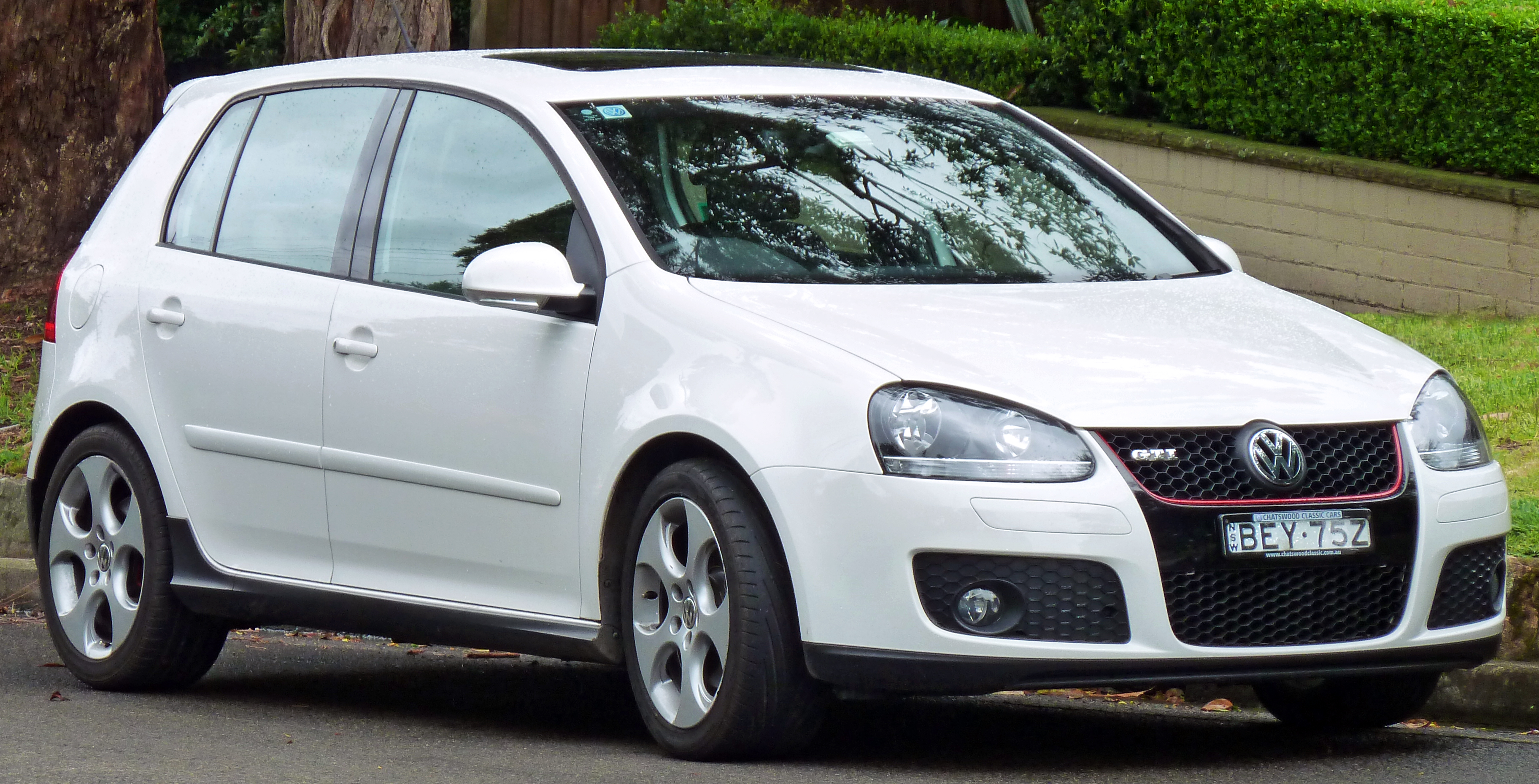 2008 Volkswagen Golf (1K MY08) GTI 5-door hatchback. Photographed in Killara, New South Wales, Australia.